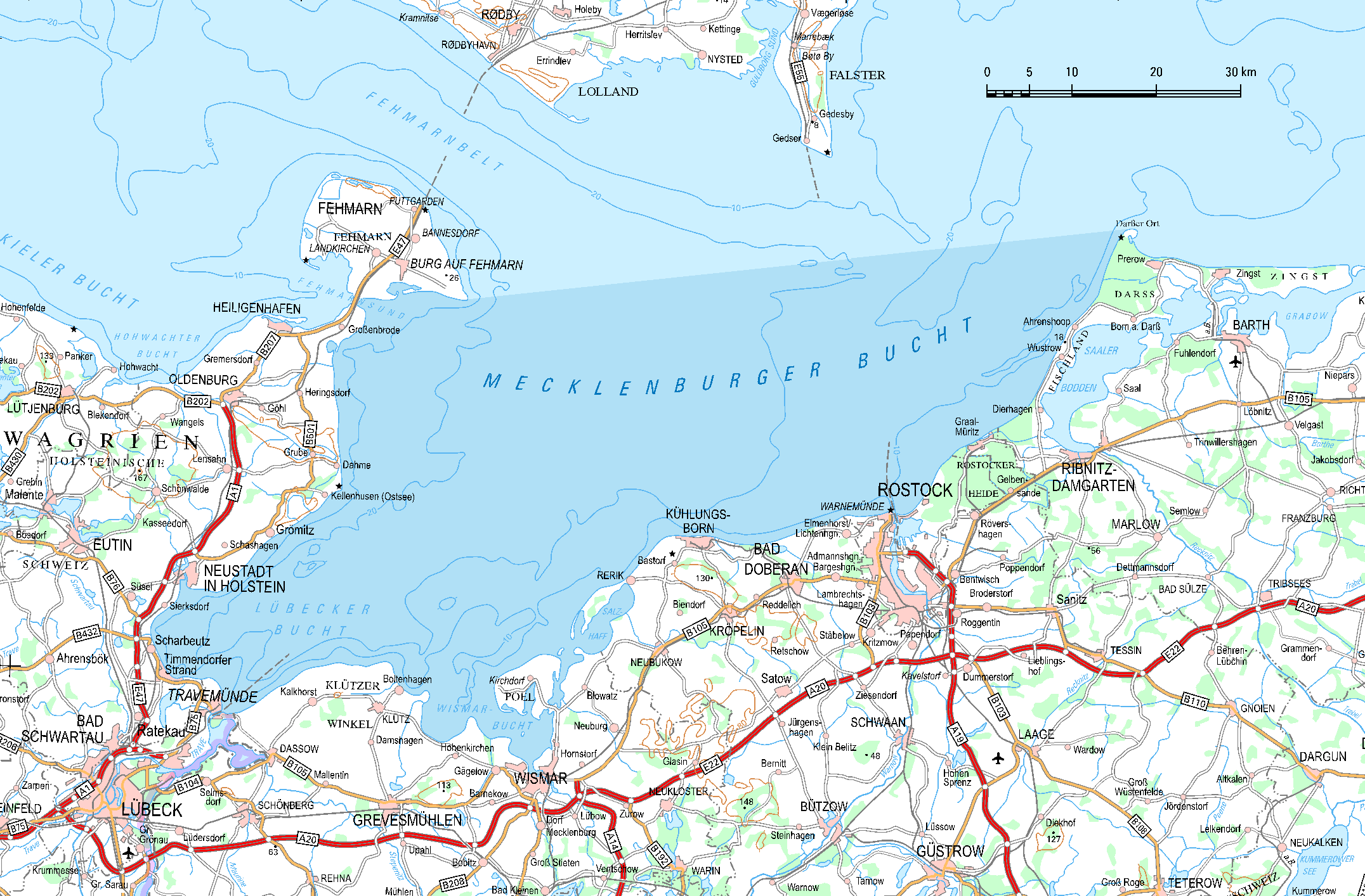 Southern part of Mecklenburg Bight